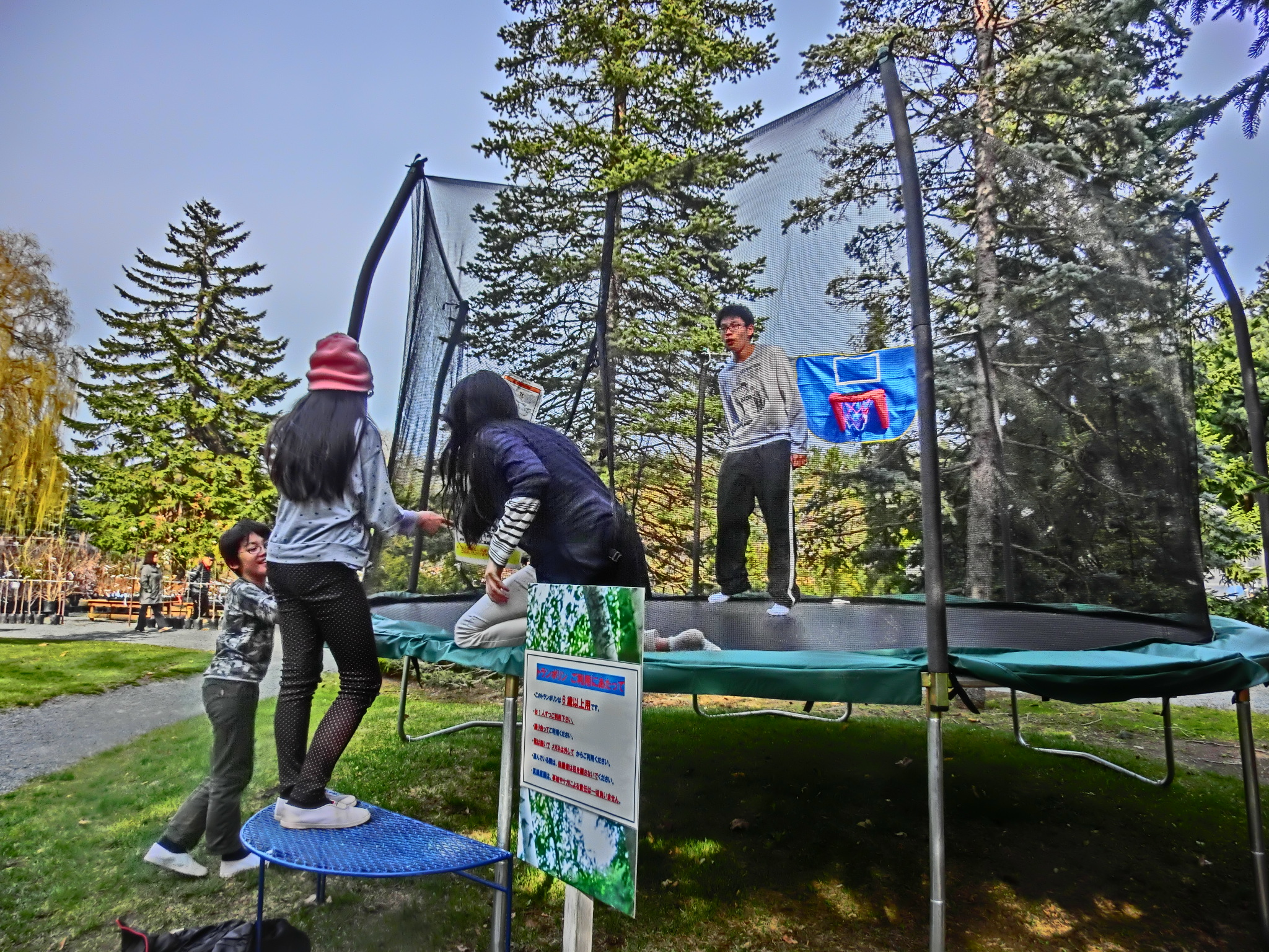 a Trampoline in manabe-garden: hokkaido JAPAN 2016